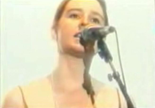 Claire Pichet in concert - Eurorock